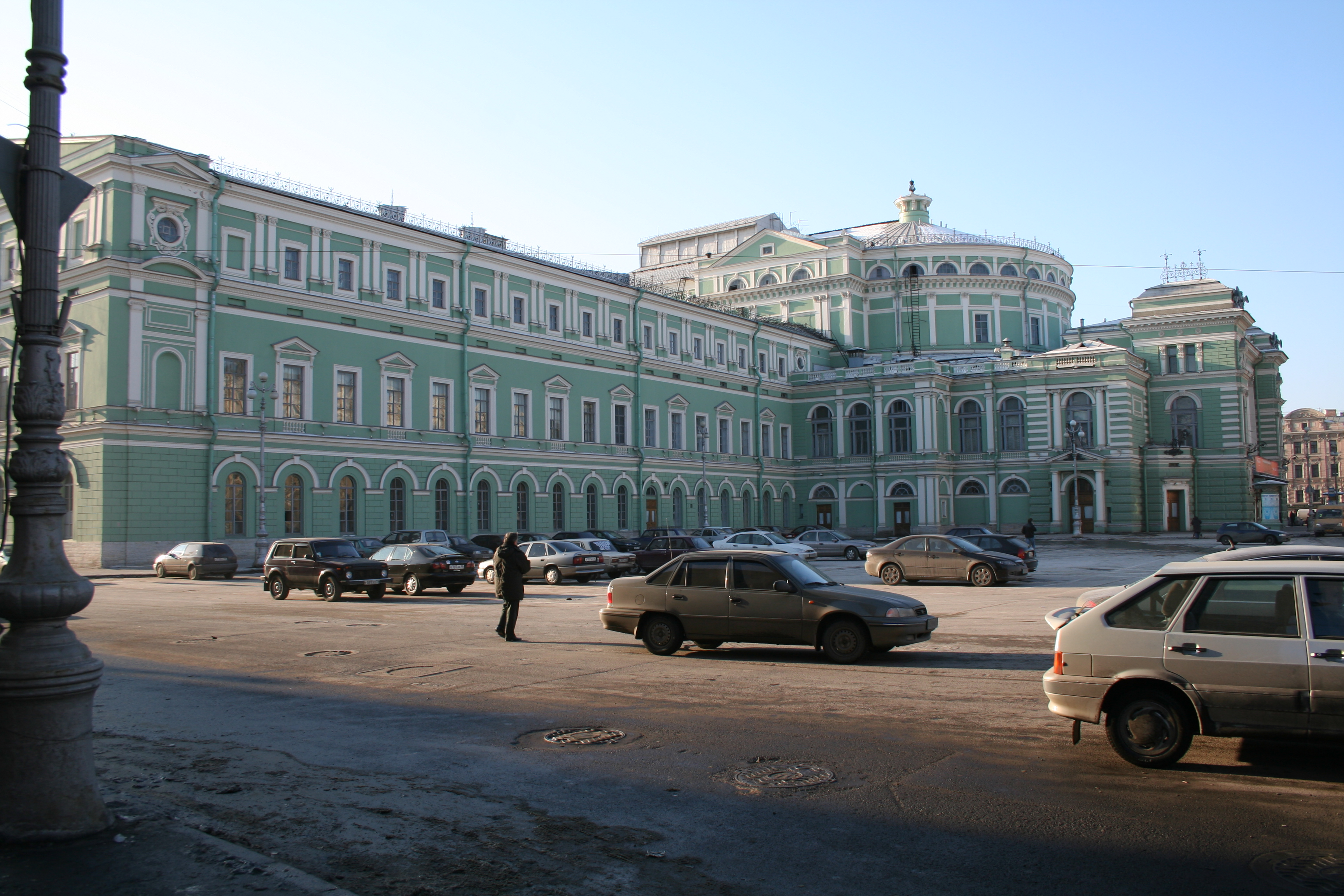 Mariinsky theatre in St. Petersburg